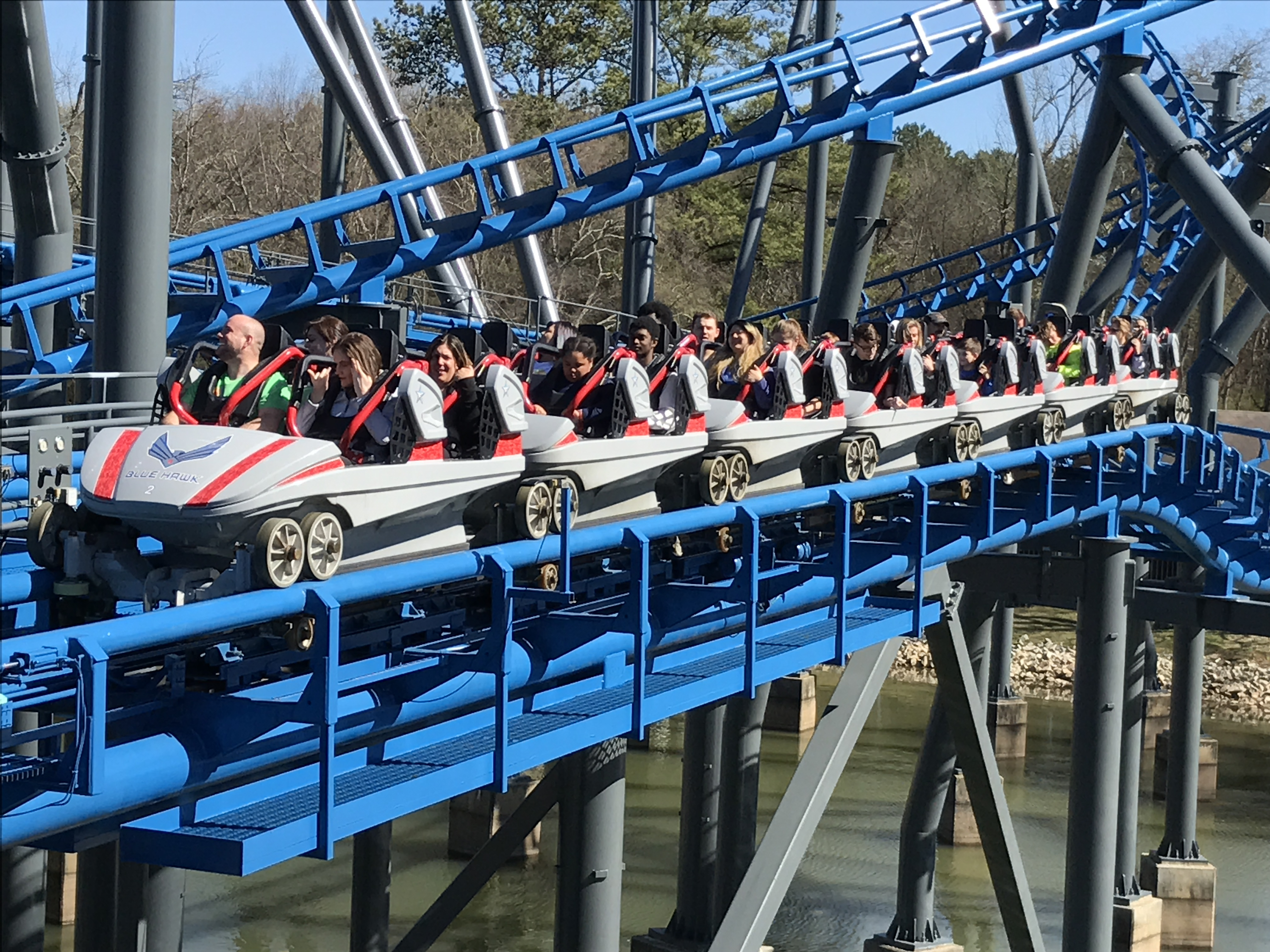 One of two trains used on Blue Hawk at Six Flags Over Georgia.